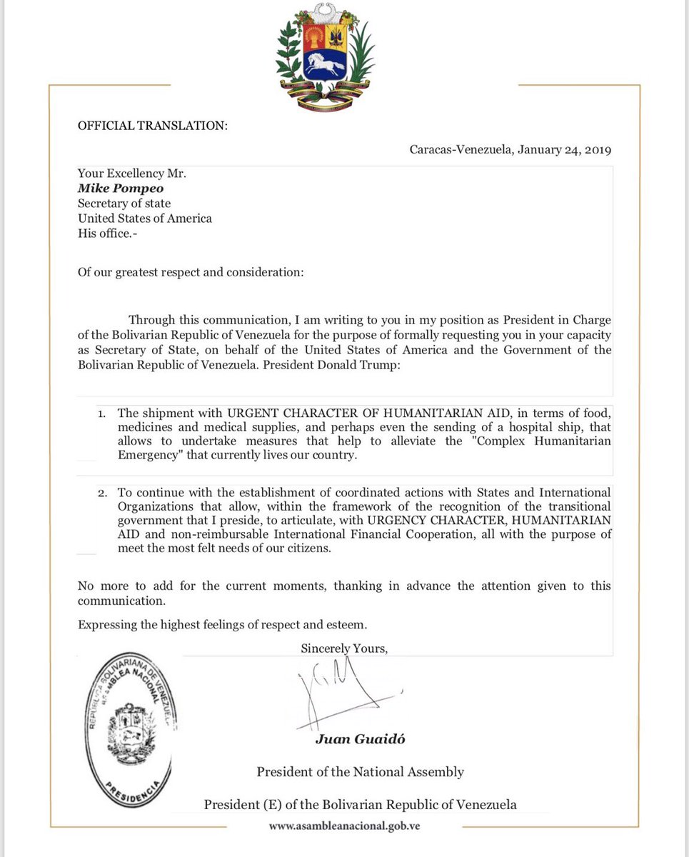 Request of humanitarian aid for Venezuela by Juan Guaido, president of Venezuela